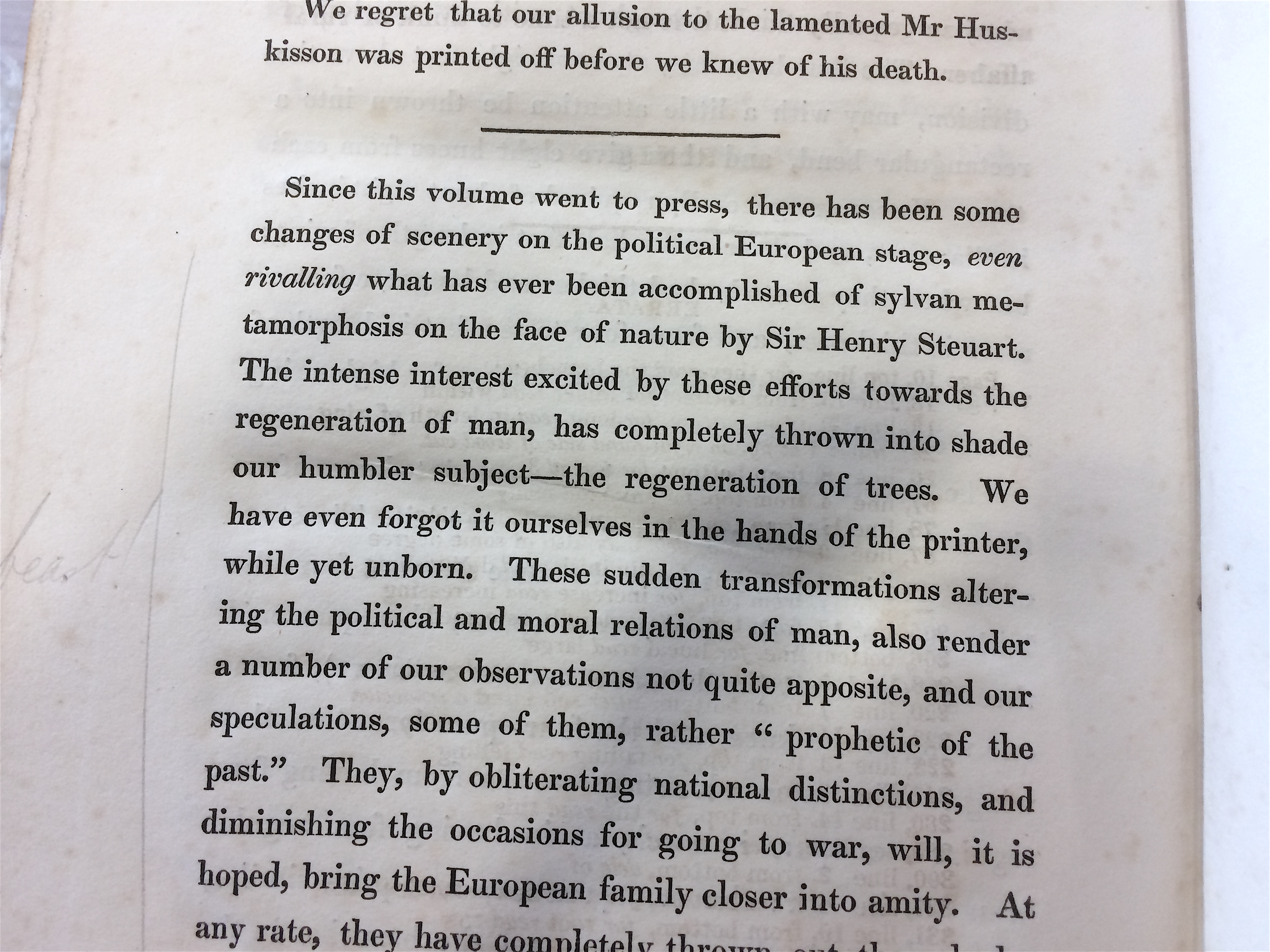 Copy of Matthew (1831) held at National Library of Scotland, in original publisher's boards. Final colophon section on p.390 explaining circumstances of July Revolution, with a gibe at a competitor. An unappreciative reader has annotated the passage in pencil, "beast!"